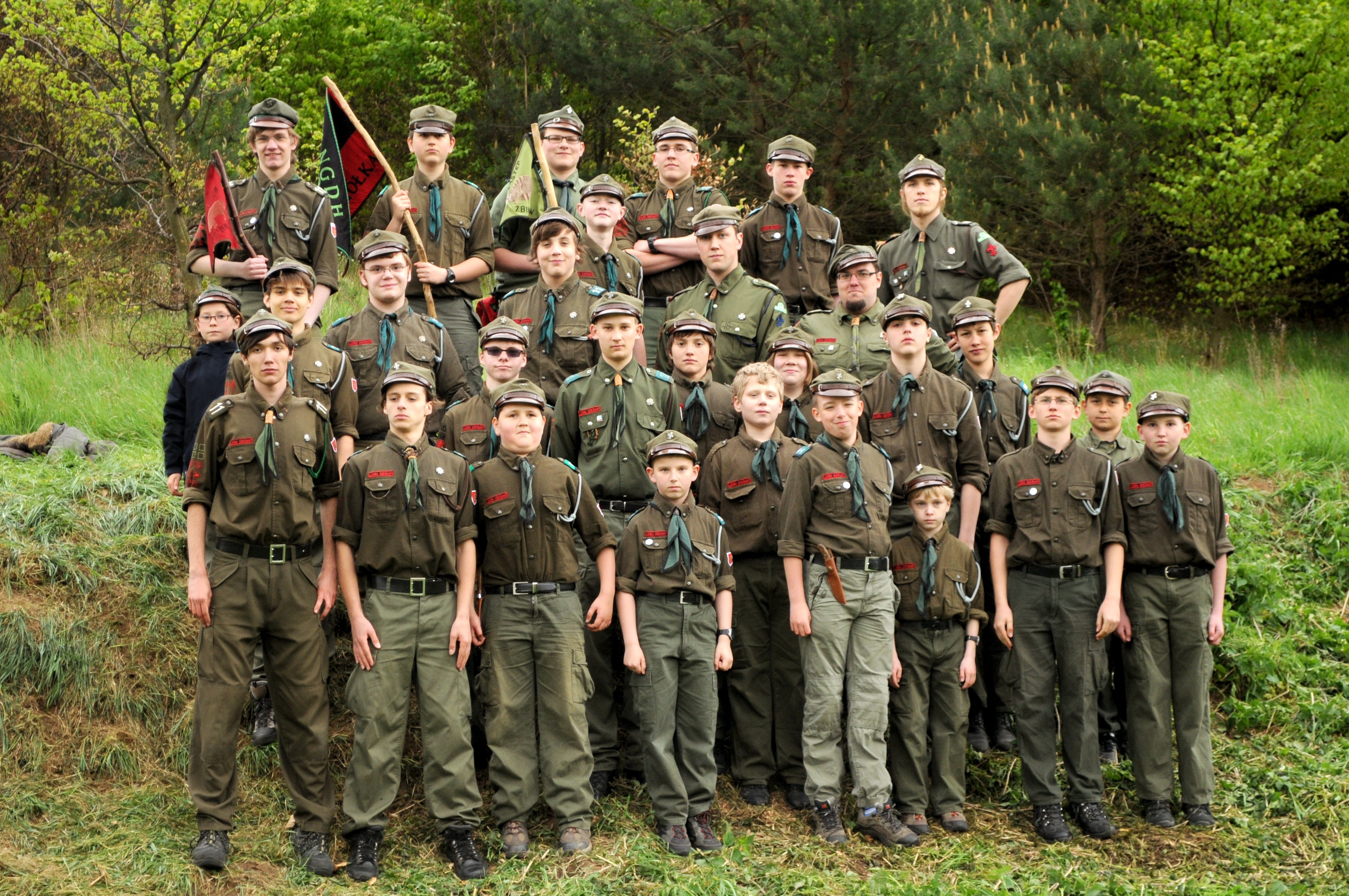 11 NGDH "Sherwood" - scout troop of Gdynia.